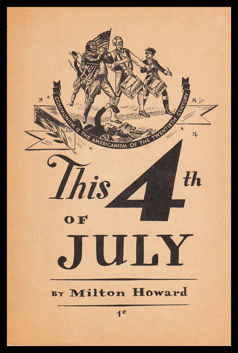 Cover of This Fourth of July by Milton Howard. Published by Workers LIbrary Publishers, New York, June 1938. Digitized and additional digital ed...